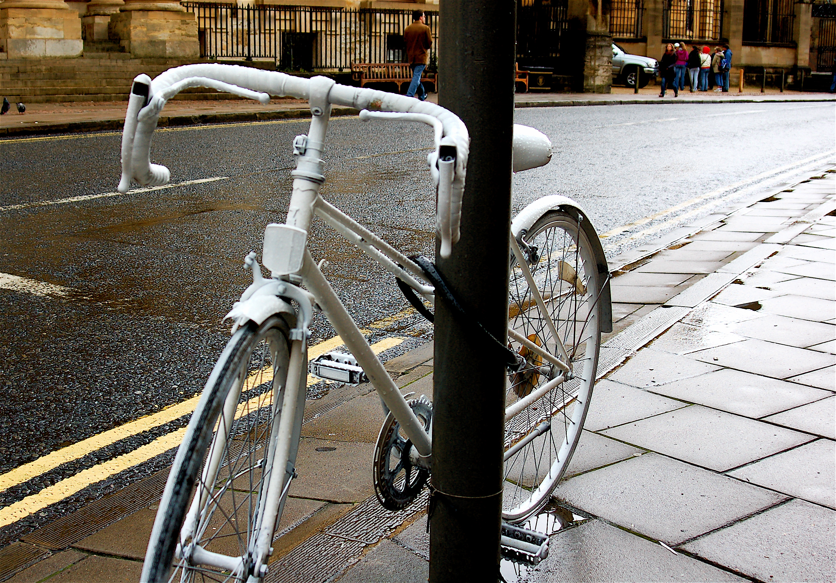 This white bike was chained to a post in Oxford. White "Ghost bikes" mean someone died on a bicycle there. This bike was placed for a 22 year old male killed 18th April 2007.